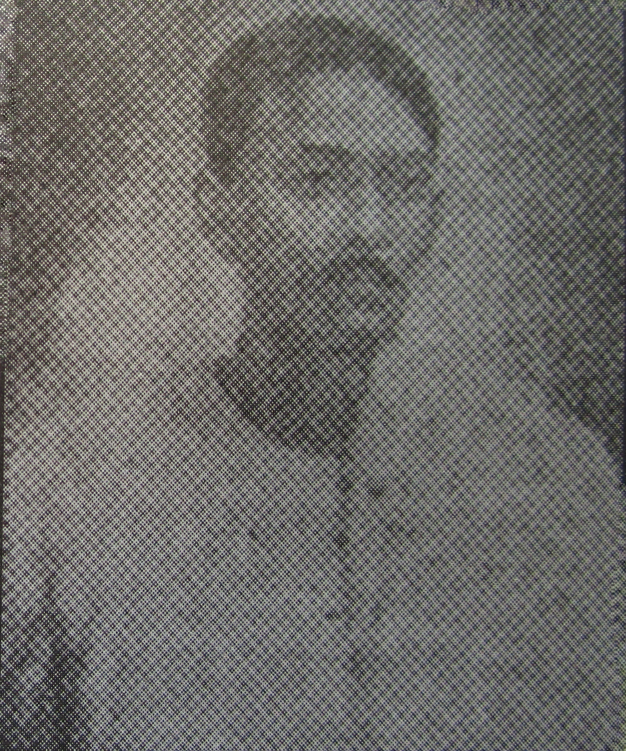 Gunadhar Hajra